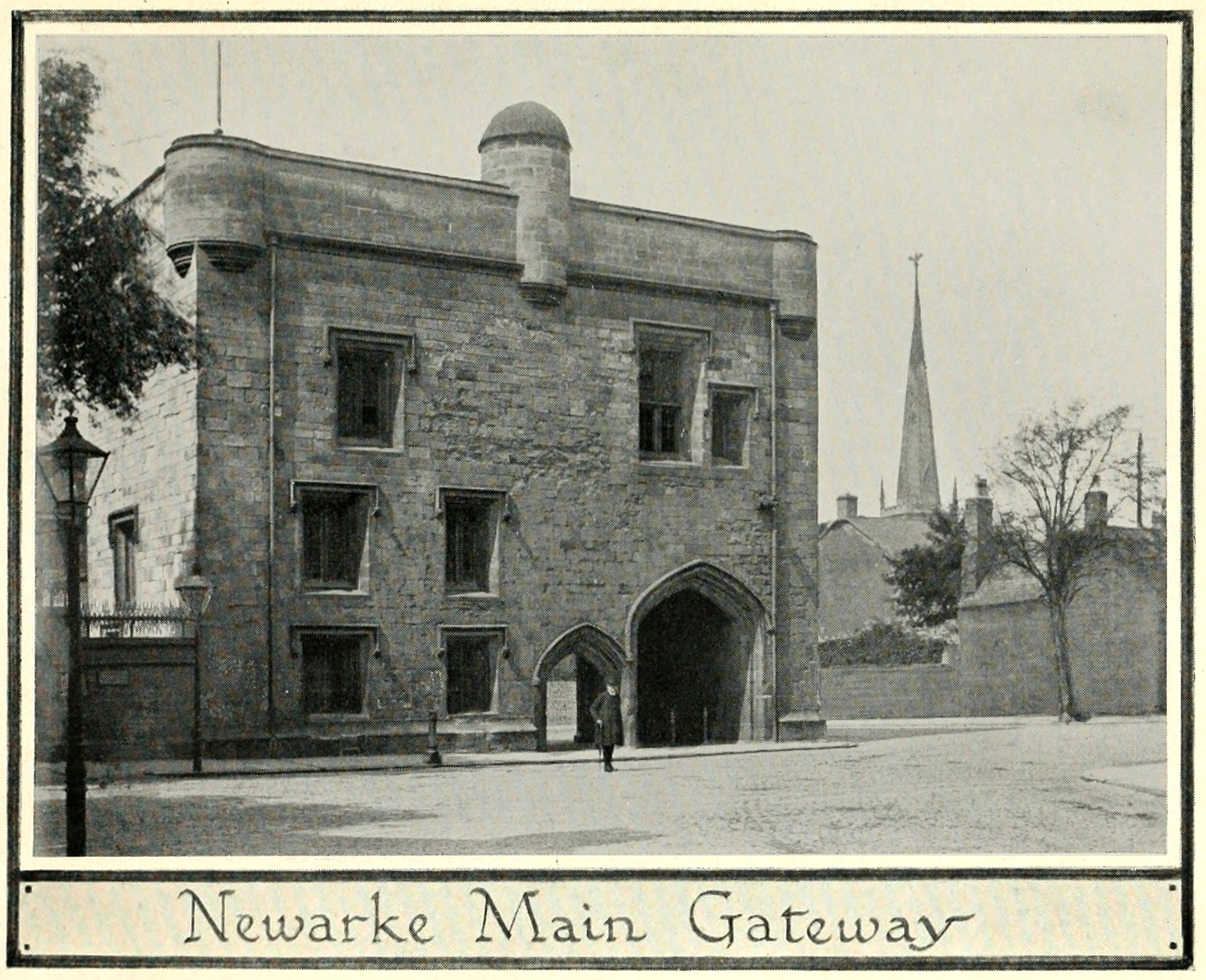 Generally known as the Magazine Arch, this was the access into the area of Leicester known as 'The Newarke' (New Work). Traffic passed through the arch until 1904, and it was used as the town arsenal for a time.